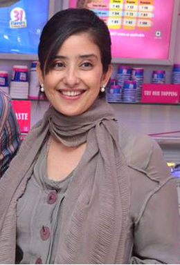 Actress Manisha Koirala at the launch of Baskin and Robbins, Cuffee Parade, Mumbai